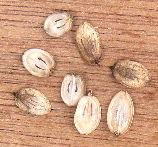 Heracleum sphondylium fruits